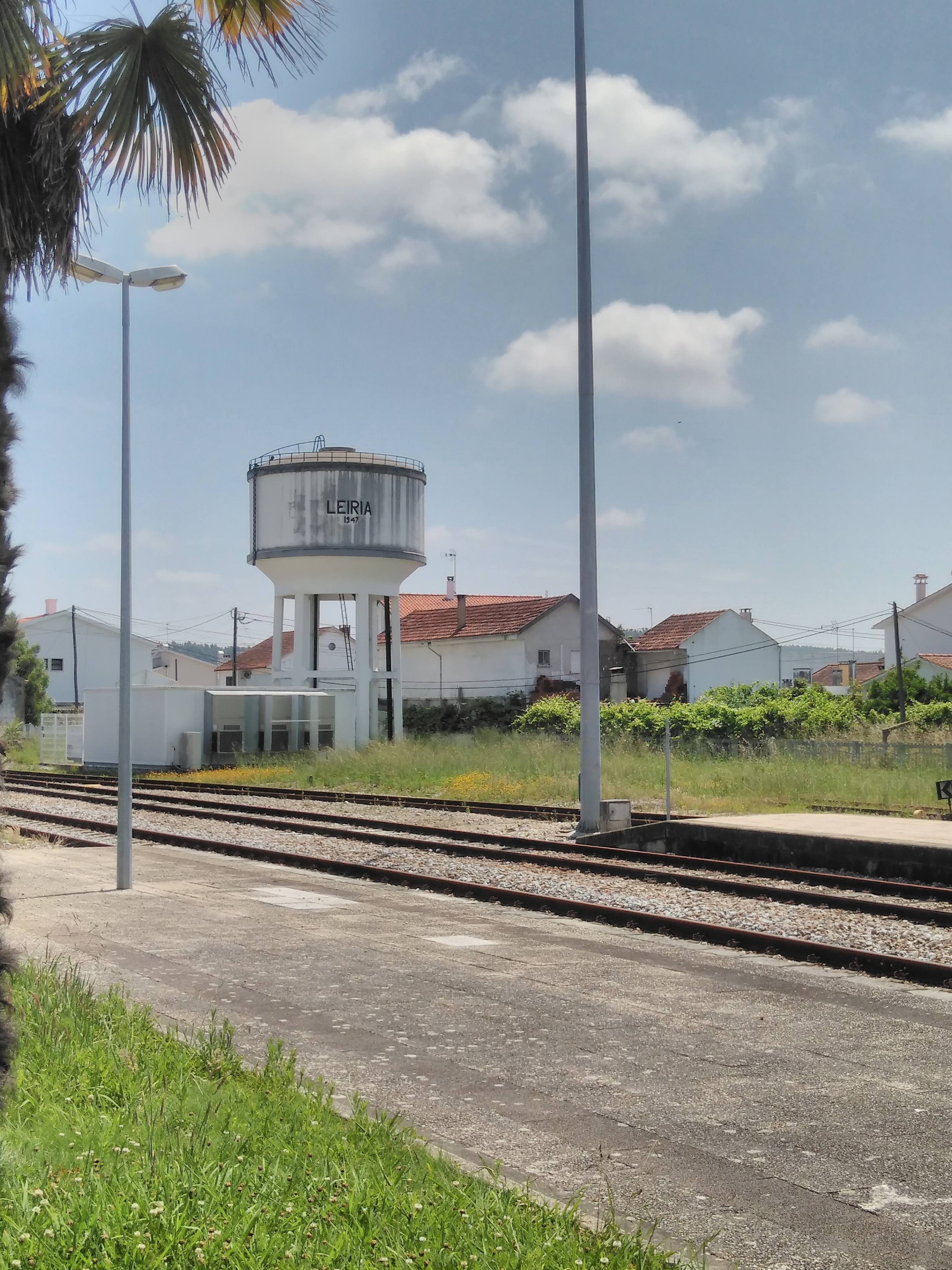 Water tower (saying "Leiria 1947") of Leiria's train station, Linha do Oeste (Western Railway line); Portugal